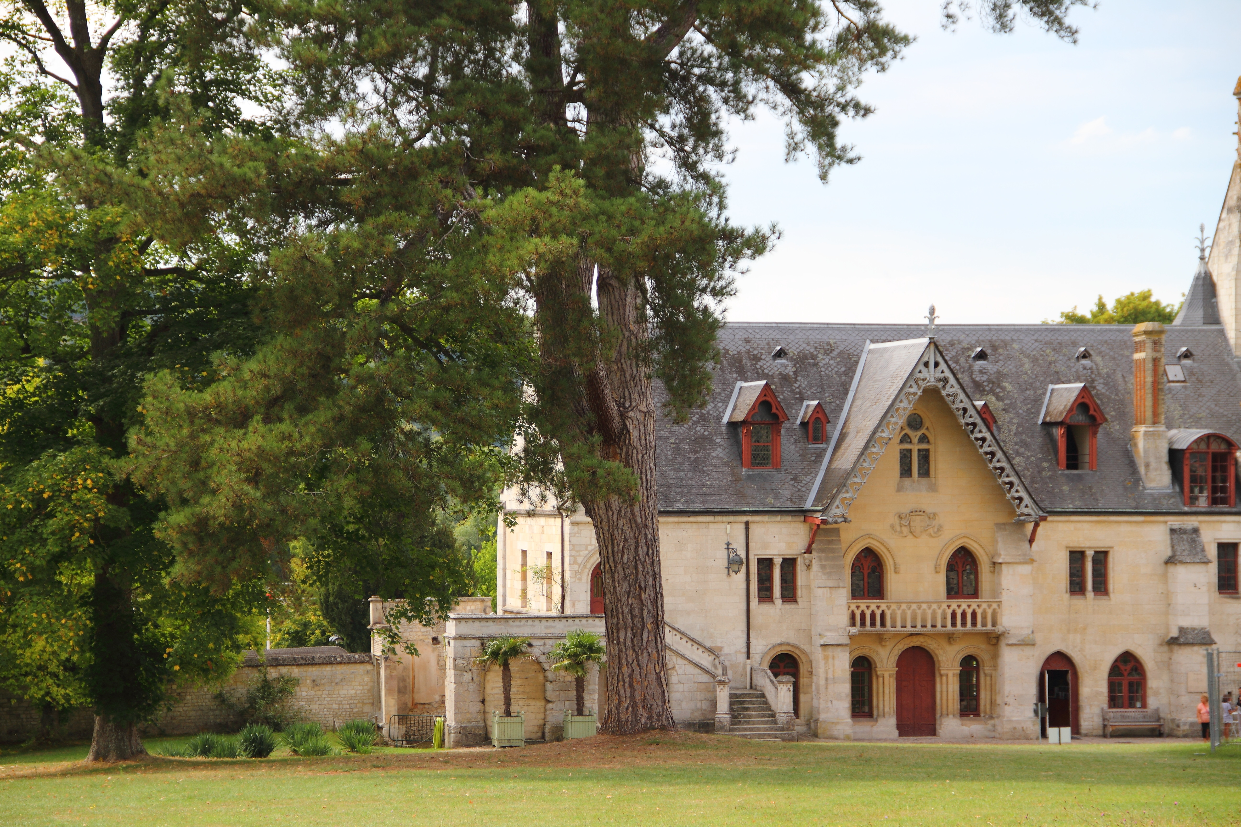 The gatehouse of Jumièges Abbey.